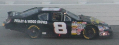 John Hunter Nemechek crashes his No. 8 Chevrolet during the Blue Ox 100 at Richmond International Raceway, April 25 2013.